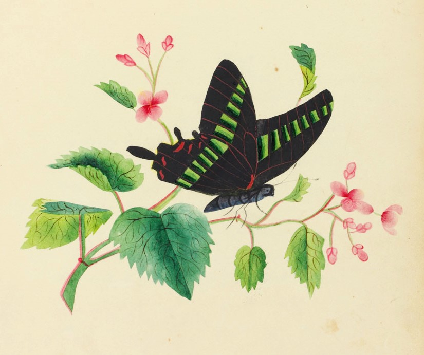 Flower by Sarah Mapps Douglass, from the Amy Matilda Cassey album, c.1833. Watercolor and goache.